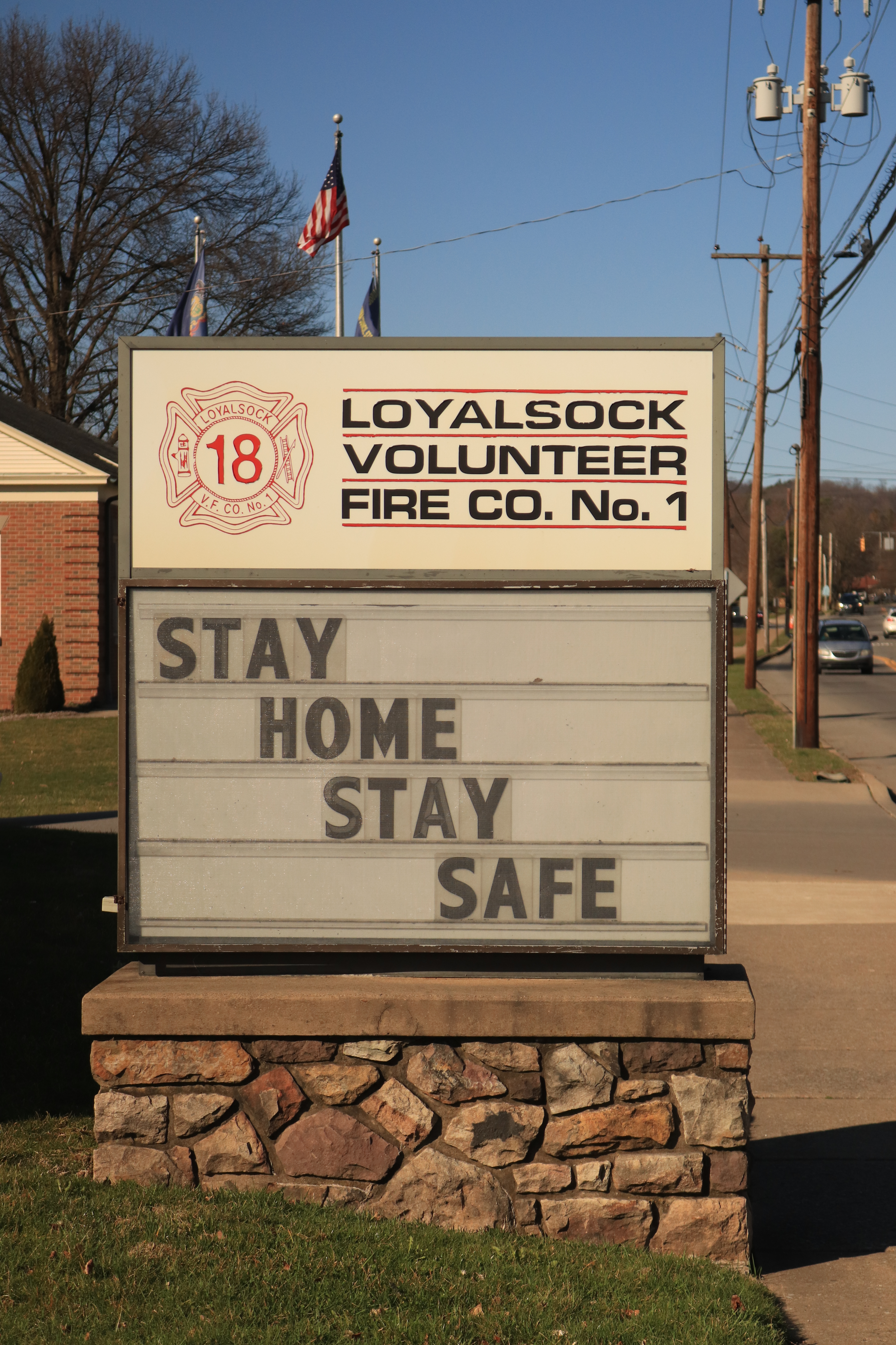 A sign outside the Loyalsock Volunteer Fire Co. No.1 in Williamsport, PA, USA that reads "Stay Home Stay Safe." The message refers to the recommendation to stay inside and practice social distancing to avoid illness during the COVID-19 pandemic.